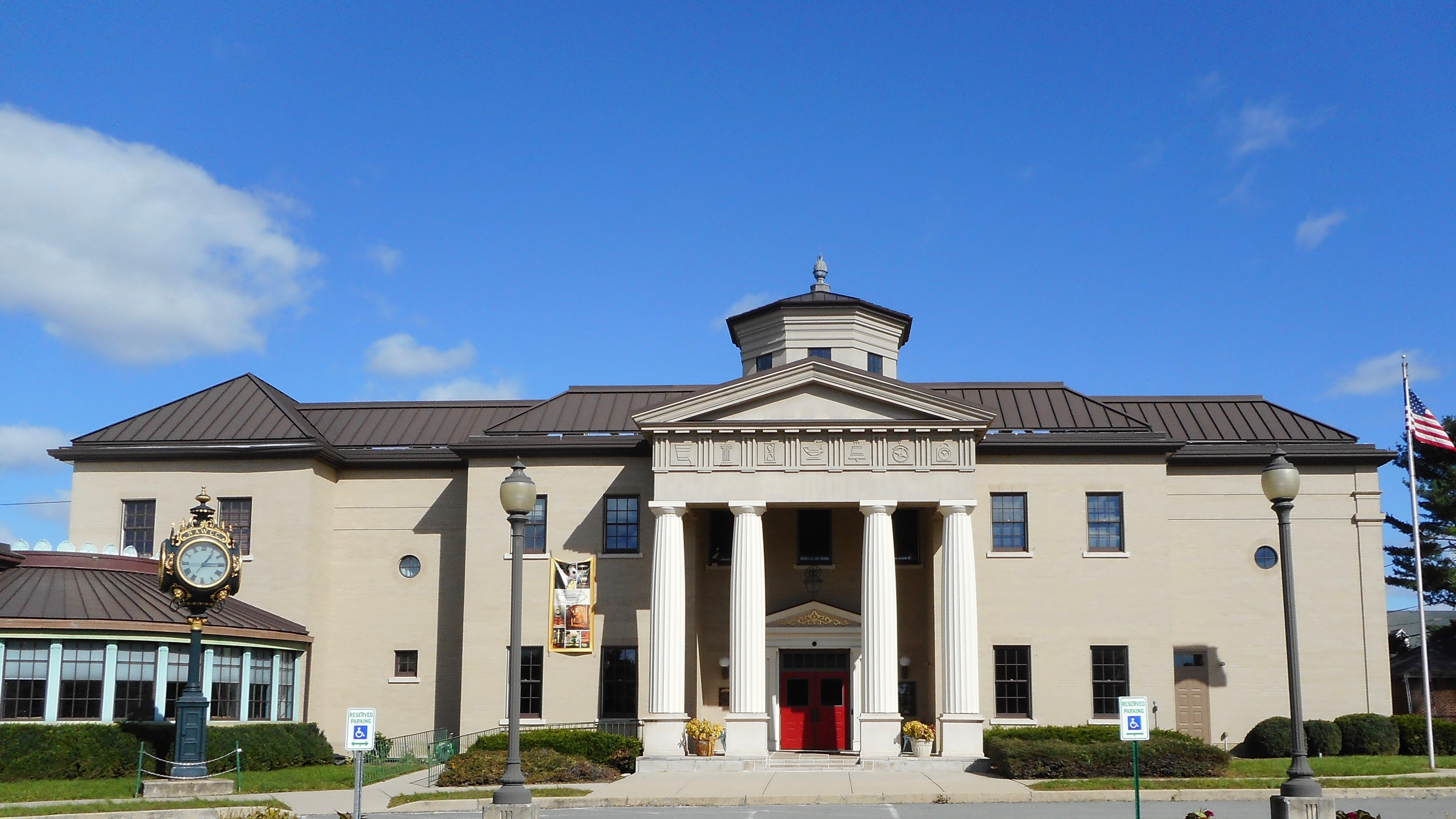 Entrance to the National Watch and Clock Museum in Columbia, Lancaster County, Pennsylvania